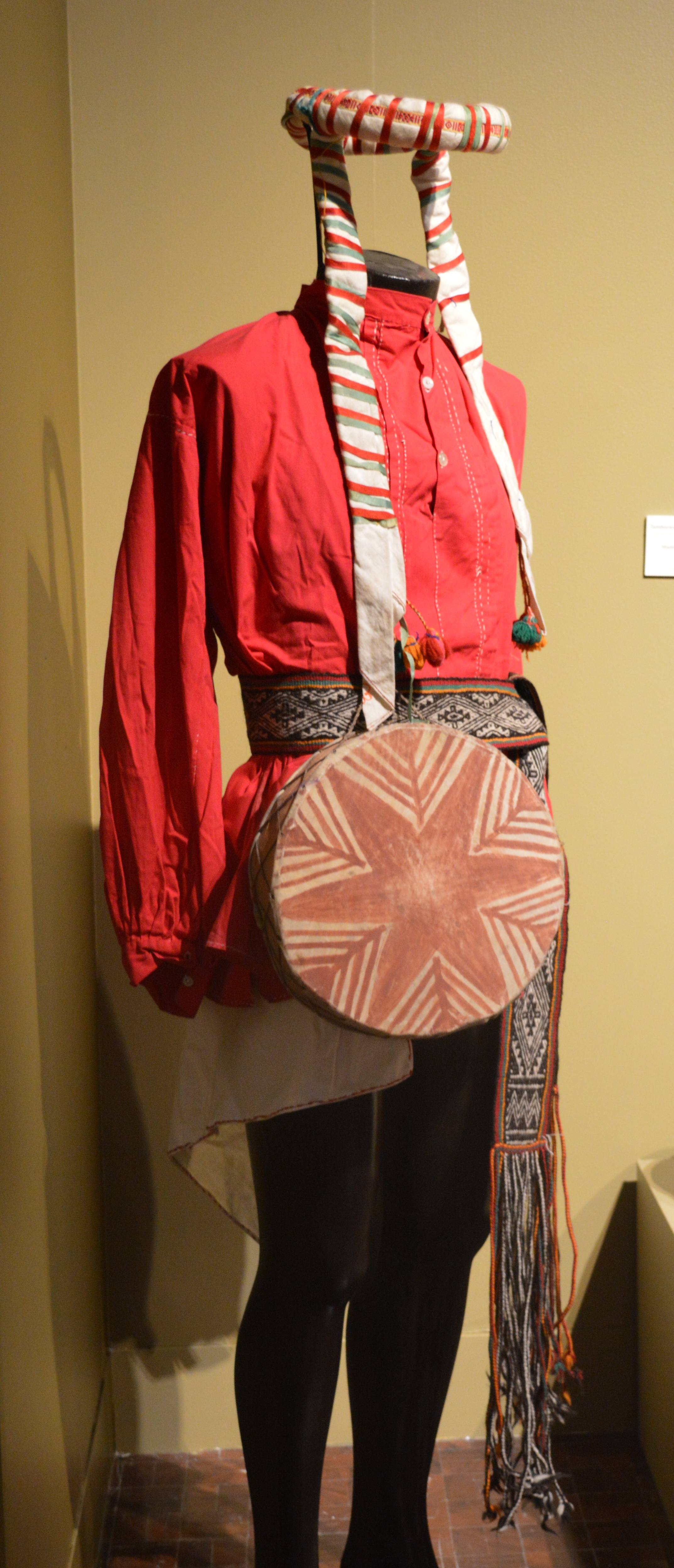 Tarahumara traditonal male dress at the El Norte, su materia, su artesania at the Museo de Arte Popular in Mexico City